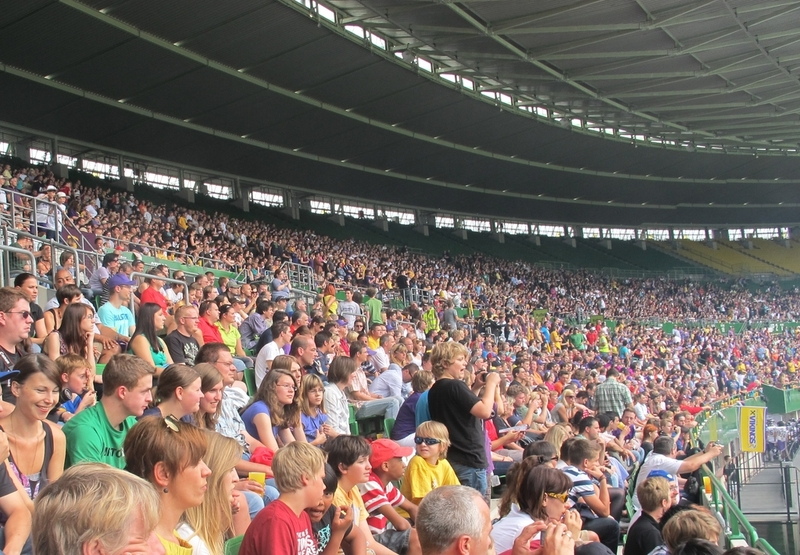 Austrian Bowl XXVII: Swarco Raiders Tirol Raiffeisen vs. Vikings (23:13), @ Ernst-Happel-Stadium Vienna Crowd (9,634)